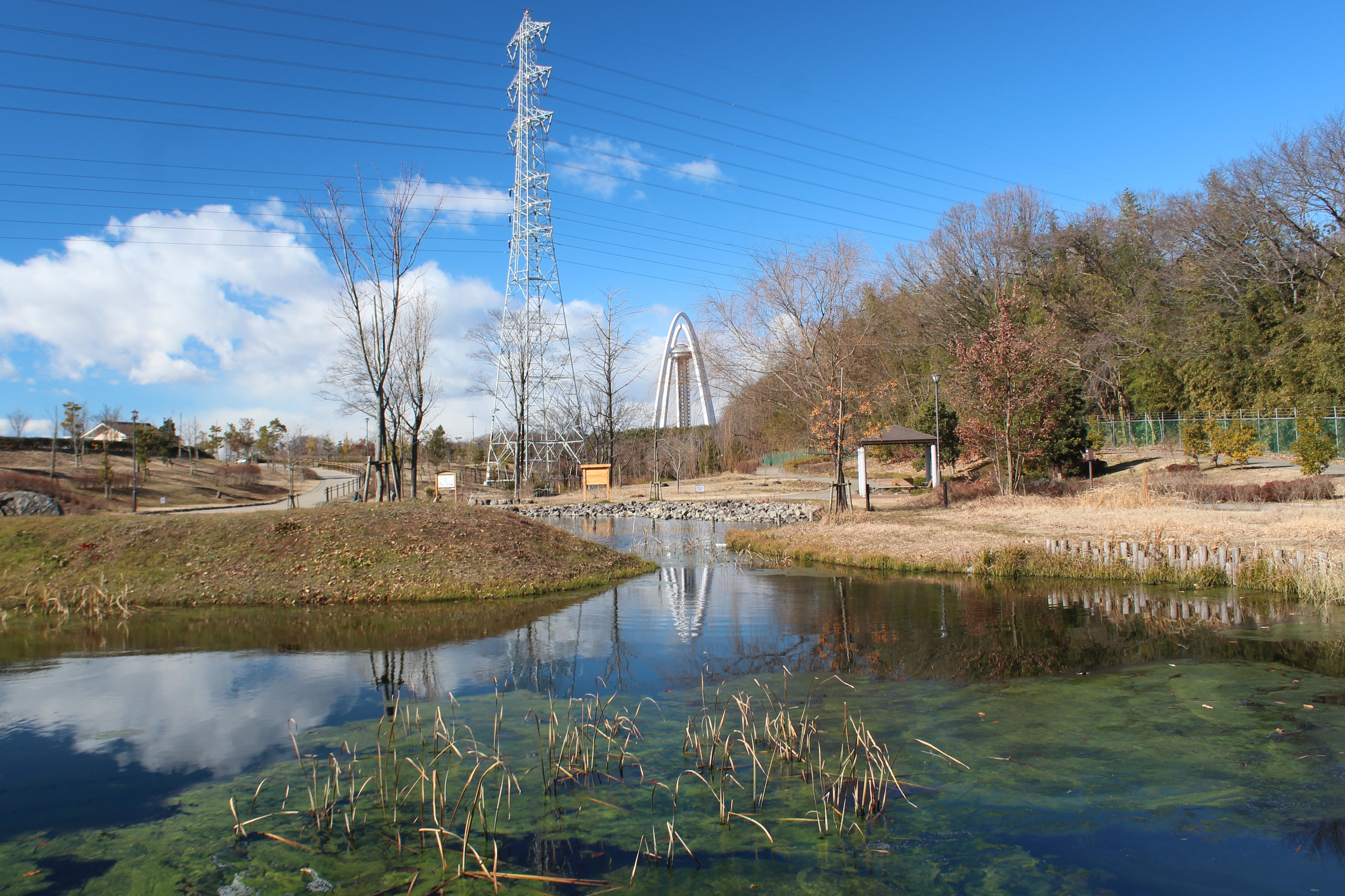 Onogokurakuji Park, in Ichinomiya, Aichi prefecture, Japan.